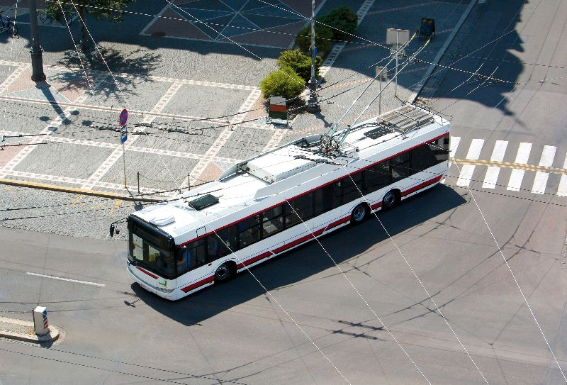 A Škoda 28Tr Solaris trolleybus in Pardubice, Czech Republic